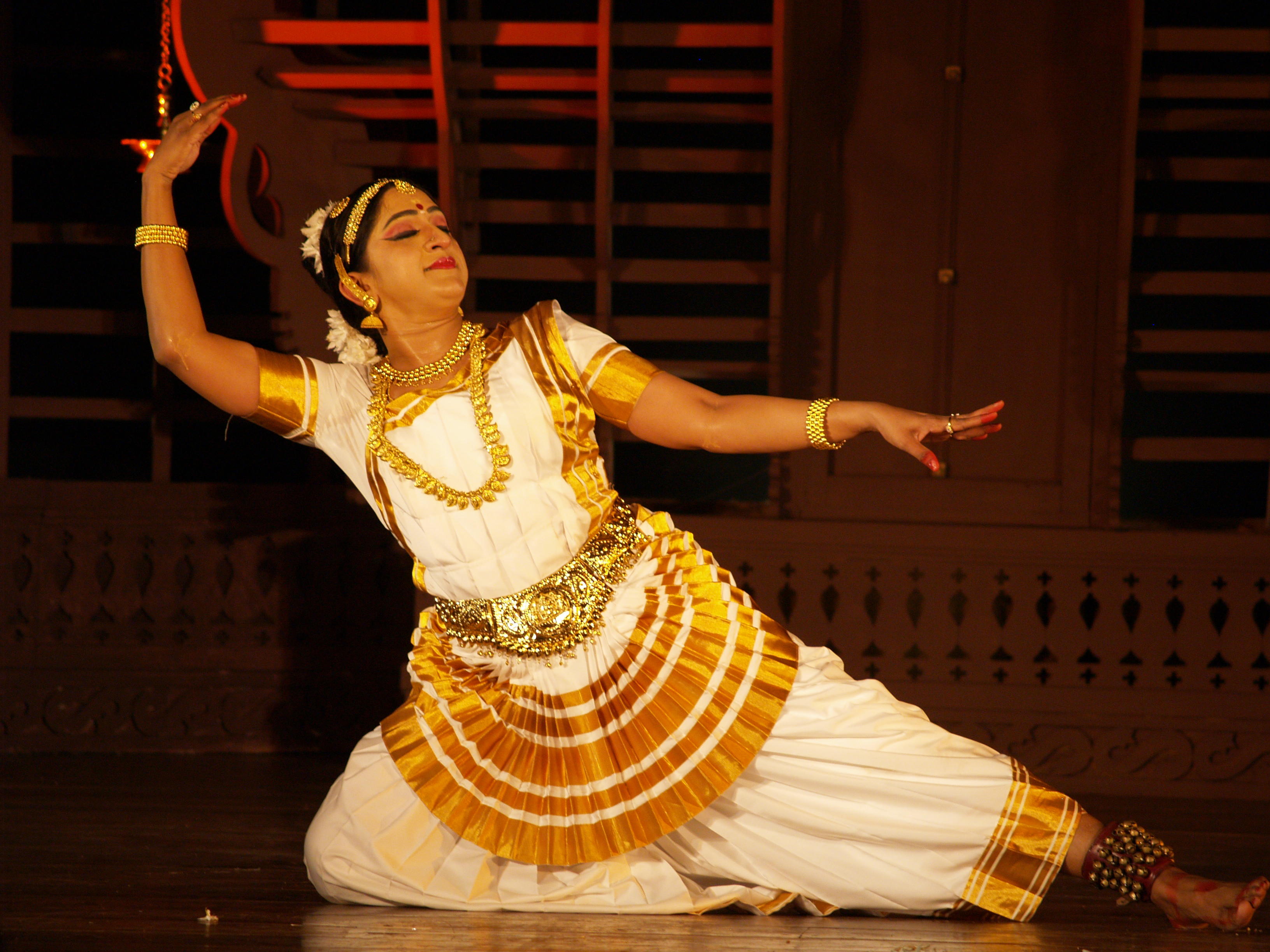 Smitha_Rajan in Ananda_Sayana at Soorya 2008